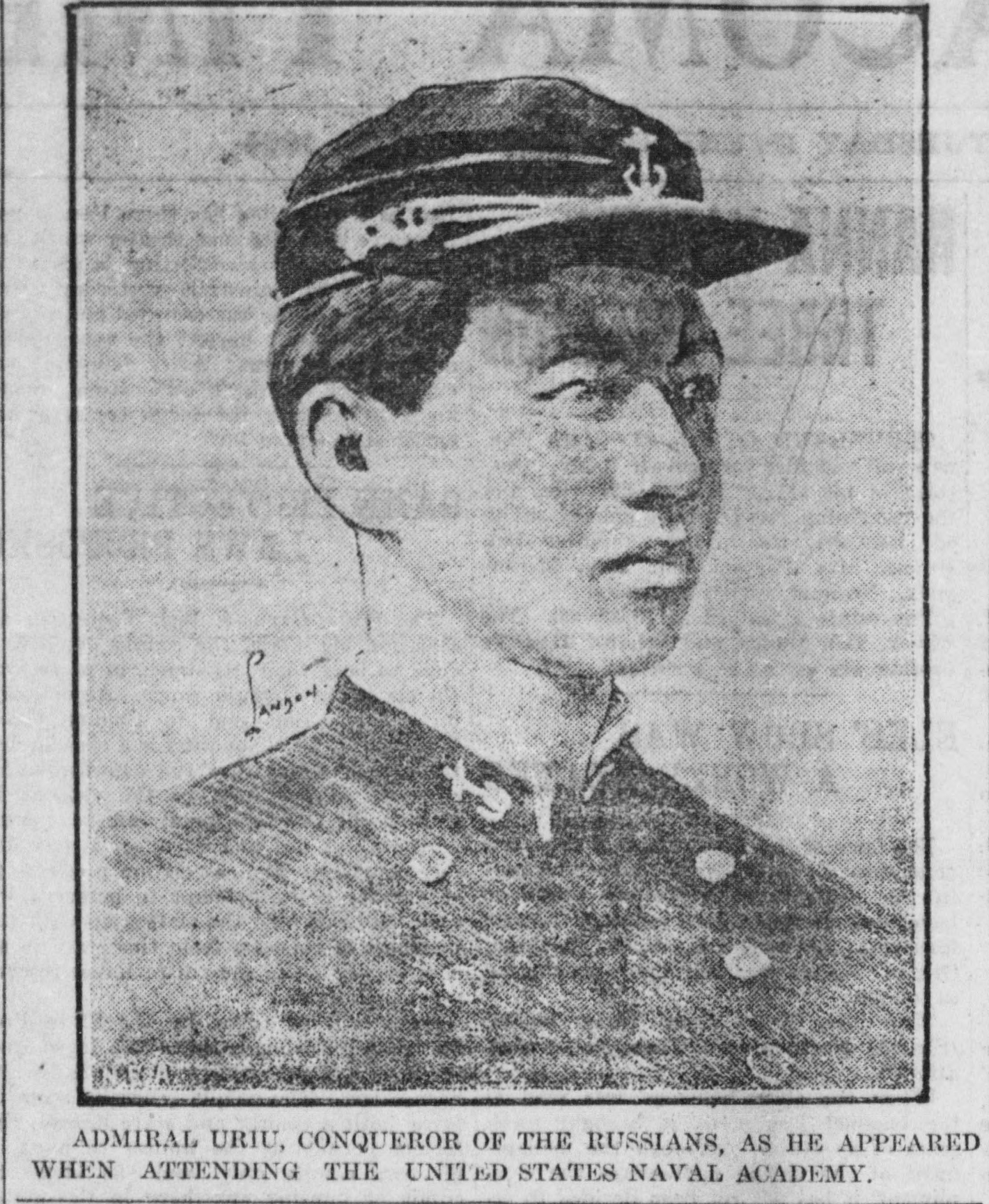 in 1904, Uryū Sotokichi was an admiral in the Imperial Japanese Army. However, this photo was taken when he was a student in the United States Naval Academy (from 9 June 1875, to 2 October 1881).